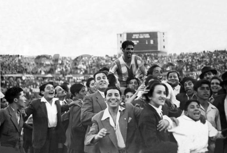 Argentina player, Rinaldo Martino, is carried by the crowd because of having scored the goal in the 1-0 win v. Uruguay.